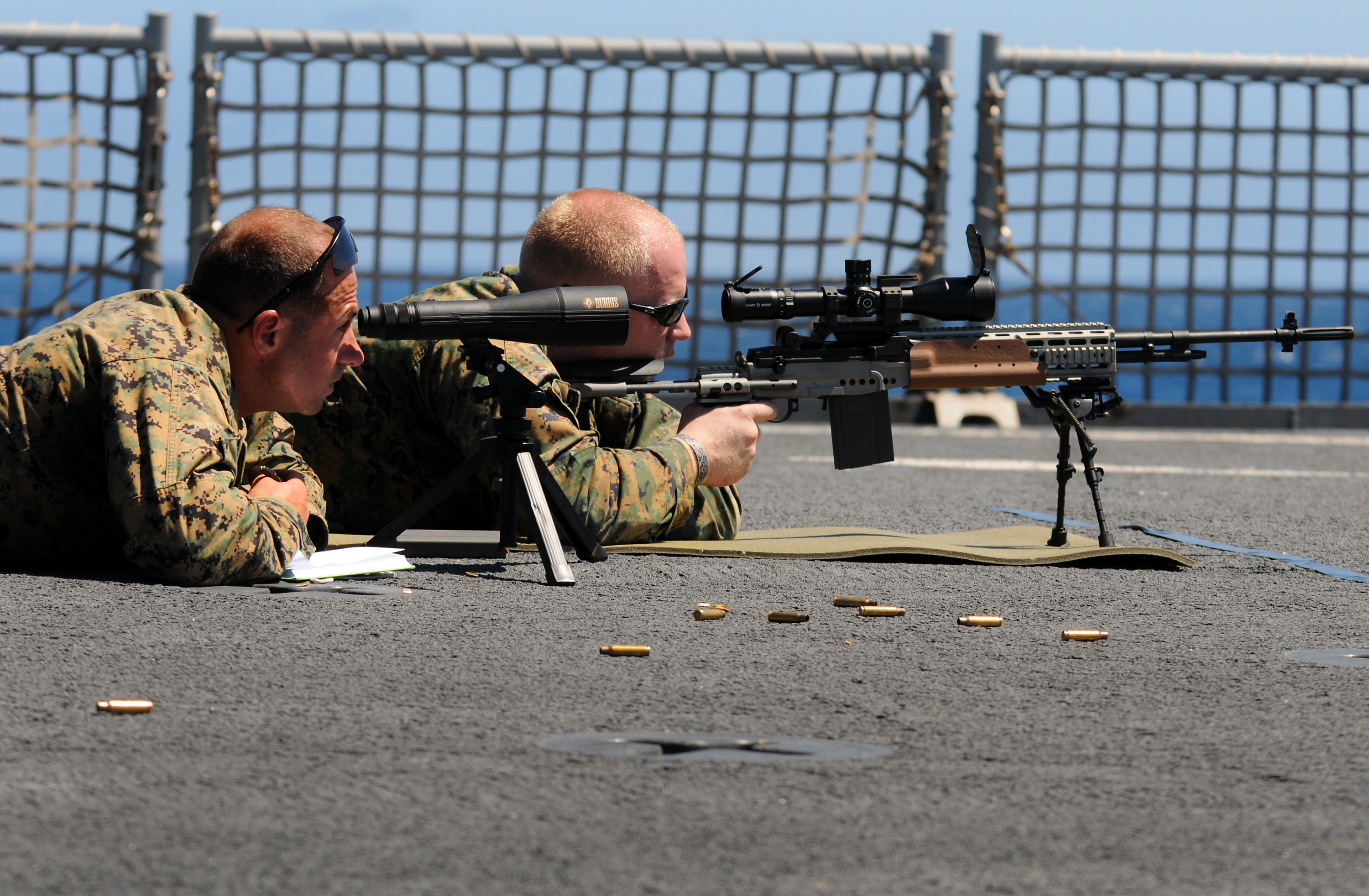 INDIAN OCEAN (July 12, 2010) Marine Corps Staff Sgt. Bryce Cannon, assigned to the Explosive Ordnance Disposal Detachment of Combat Logistics Battalion (CLB) 15, shoots an M39 Enhanced Marksmanship Rifle (EMR) while his spotter Sgt. Nicholas Hill, assigned to Weapons Company of 1st battalion, 4th Marines, observes through a scope aboard the amphibious dock landing ship USS Pearl Harbor (LSD 52). The M39 EMR is used to destroy unexploded ordnance from a safe distance. Pearl Harbor is part of Peleliu Amphibious Ready Group. (U.S. Navy photo by Mass Communication Specialist 2nd Class Michael Russell/Released)